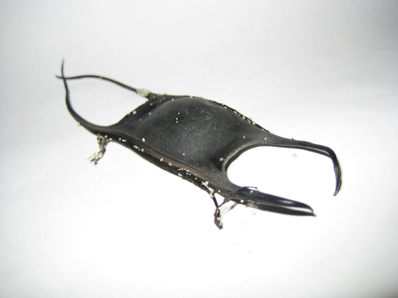 Photograph of a Skate Egg Case, also called Mermaid Purses, from Seaside Heights, NJ.